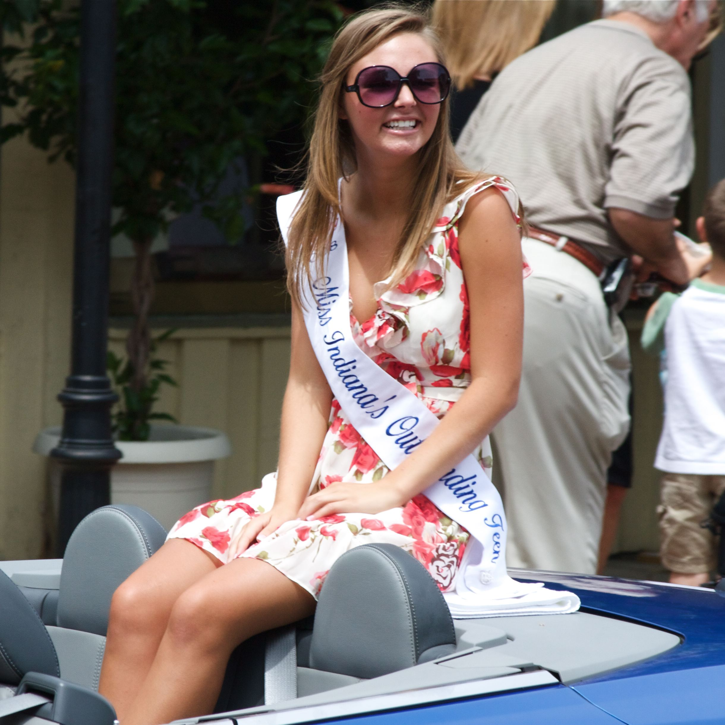 Megan Thwaites, Miss Indiana’s Outstanding Teen.